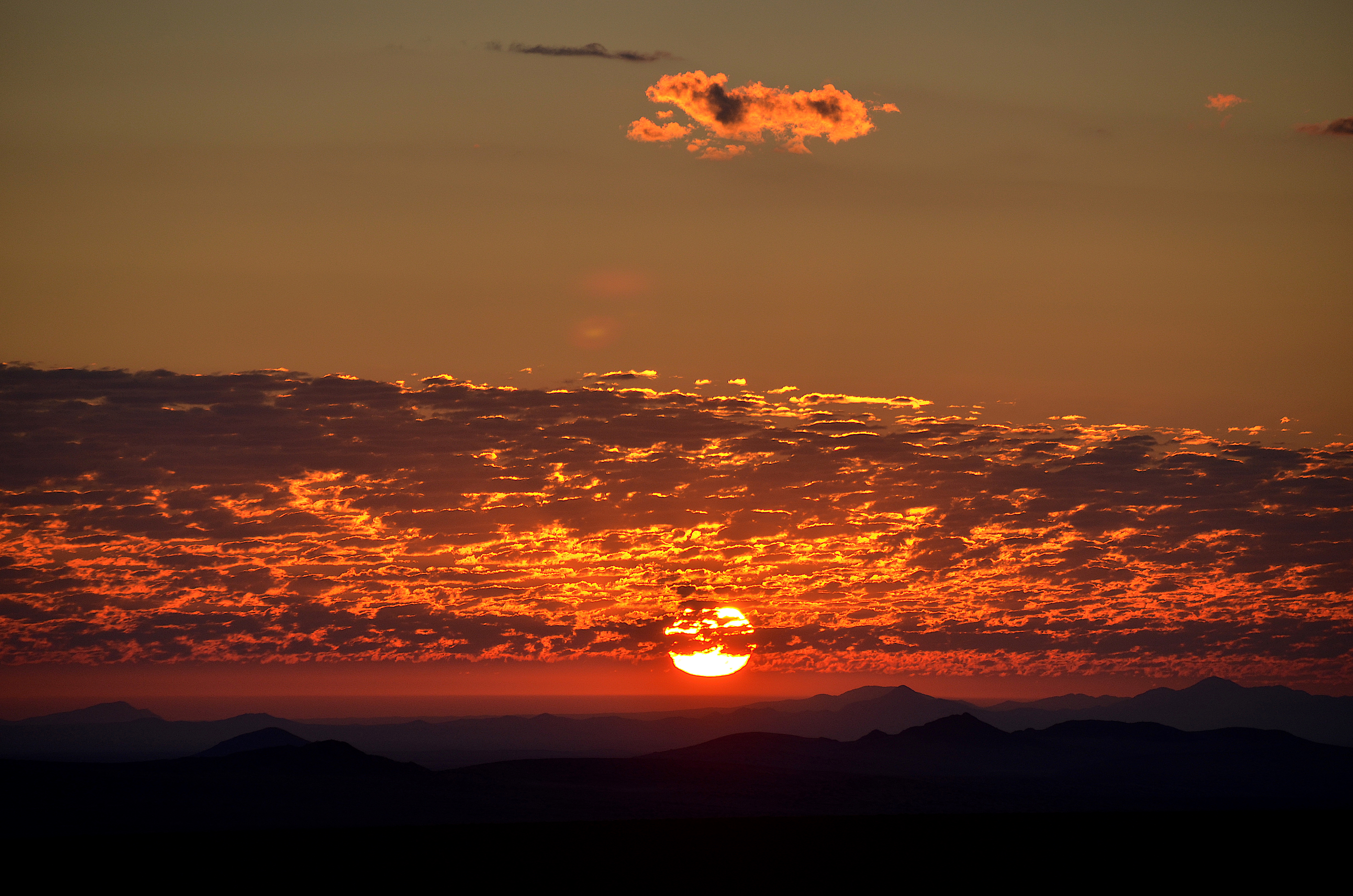 Sunset in the Namib Desert